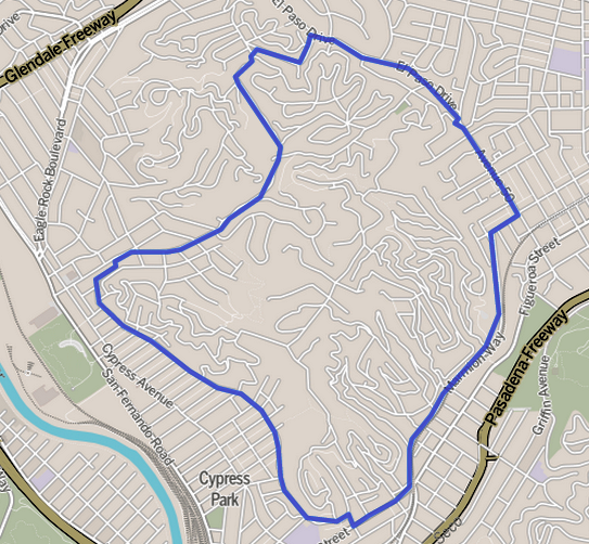 A map of the Mount Washington neighborhood in the San Rafael Hills of northeast Los Angeles, California. This map may be incomplete, and may contain errors. Don't rely solely on it for navigation.